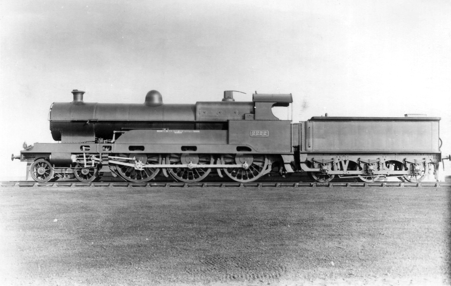 Photograph of LNWR engine No. 2222 'Sir Gilbert Claughton'